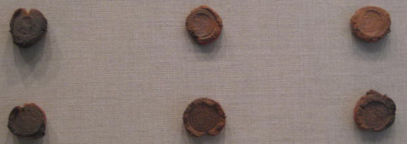 Roman molds used for forging coins at the Metropolitan Museum of Art